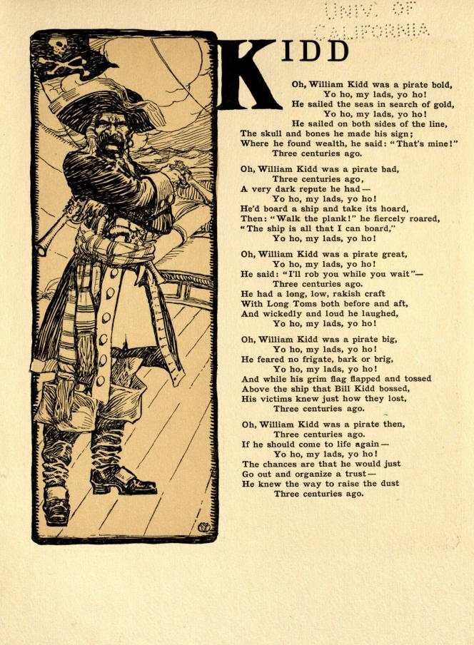 'An alphabet of history’ by Wilbur D. Nesbit; illustrated by Ellsworth Young. Published 1905 by Paul Elder & Co